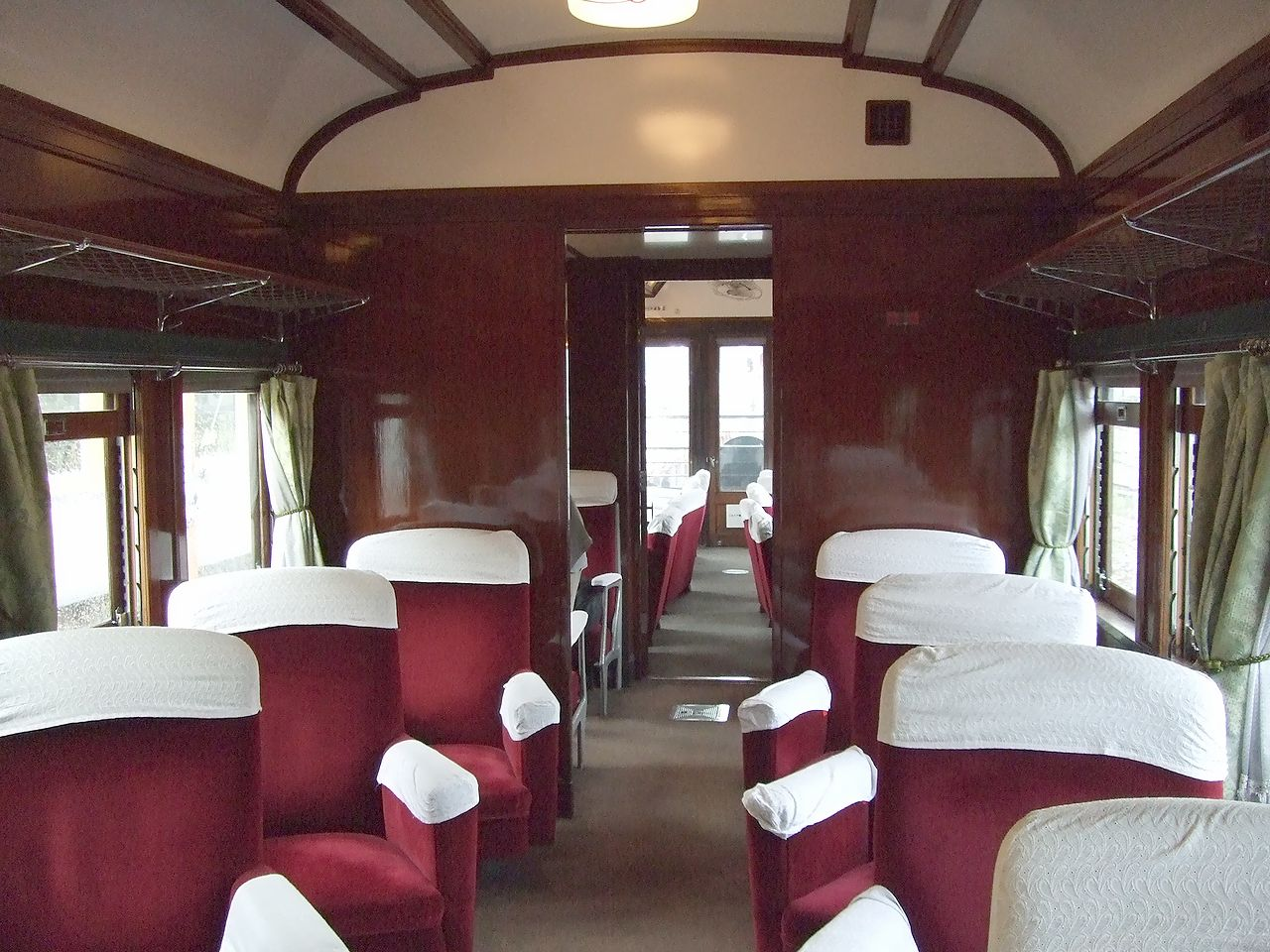 West Japan Railway Company passenger car No."maite492" interior